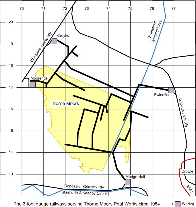 Map showing peat railways of Thorne Moors circa 1984, with earlier links to Creyke Siding and Moorends Works. Modern public access land is shown in yellow.